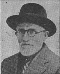 Picture of Haim Michel Michlin